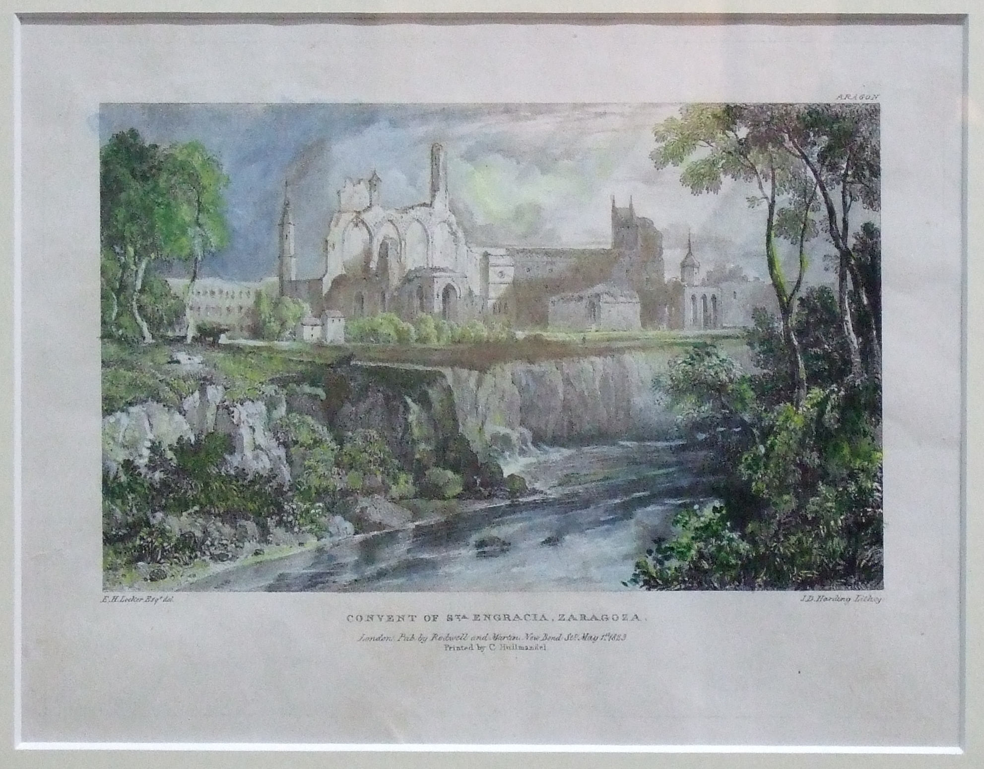 Covent of the monastery of Santa Engracia in Zaragoza (Spain) in his book Views in Spain (1824), which gives graphic and literary account of the journeys made in 1811 and 1813. New York Public Library collections